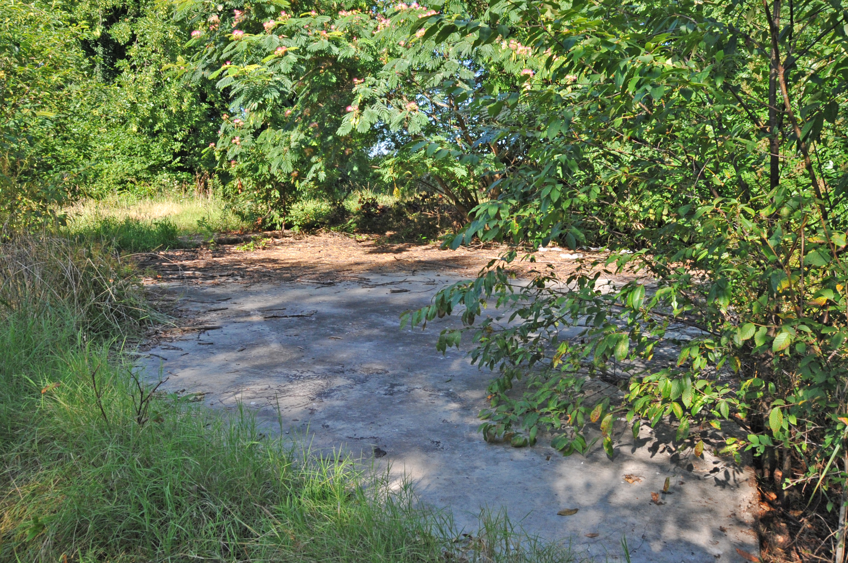 THE HOUSE HAS BEEN DEMOLISHED AND ONLY THE CONCRETE SLAB REMAINS WITH THE SITE OF A FIREPLACE AND CONCRETE WATER CISTERN JUST ADJACENT TO THE HOUSE. THE DRIVEWAY LEADING FROM PLEASANT GROVE ROAD IS STILL VISIBLE.